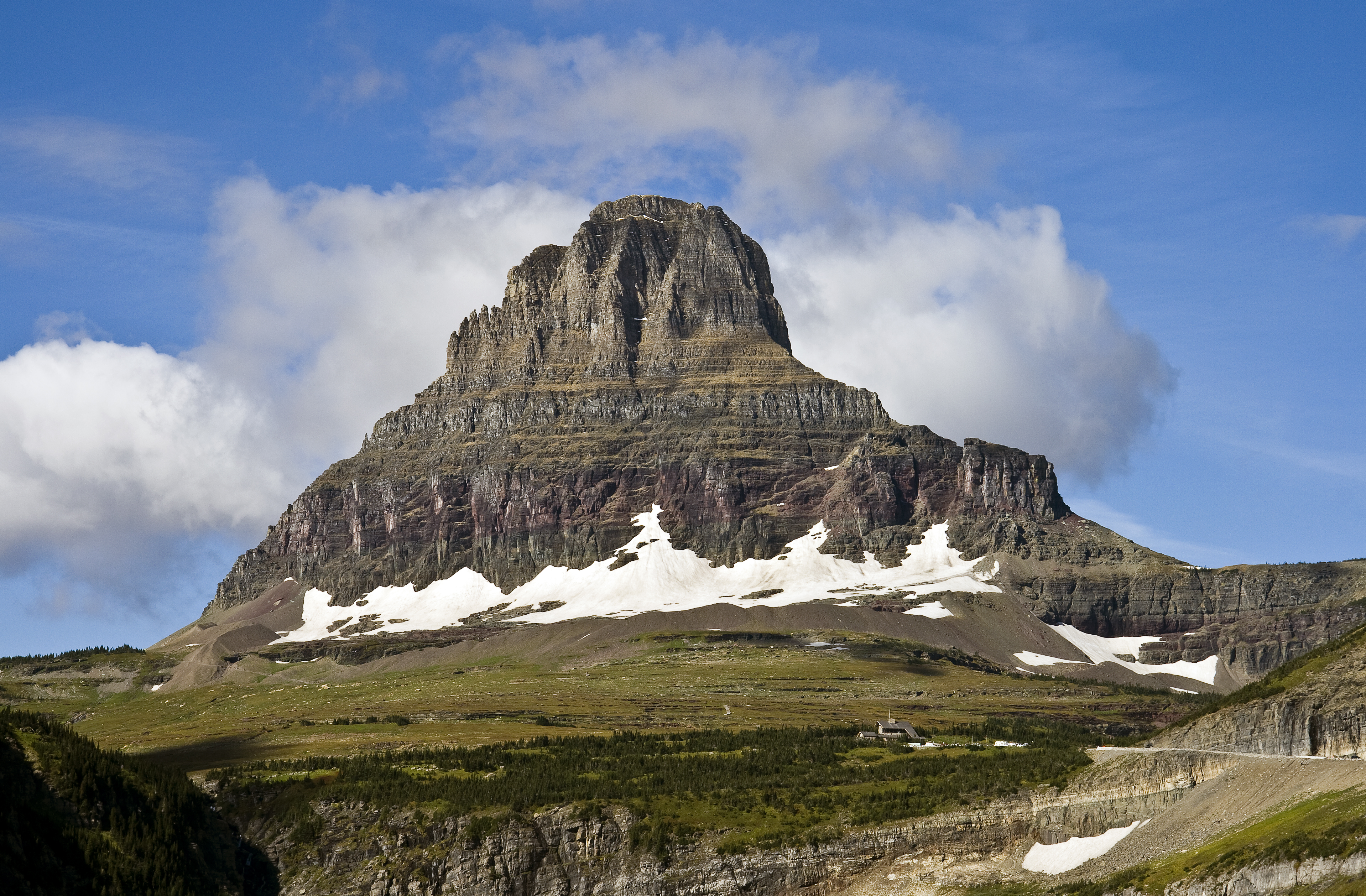 Clements Mountain, or Mt. Clements, Glacier National Park, Montana, from the Going-to-the-Sun Road. Logan Pass visitor center in foreground.